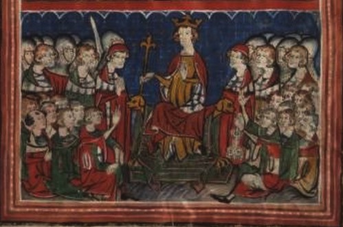 Balduineum